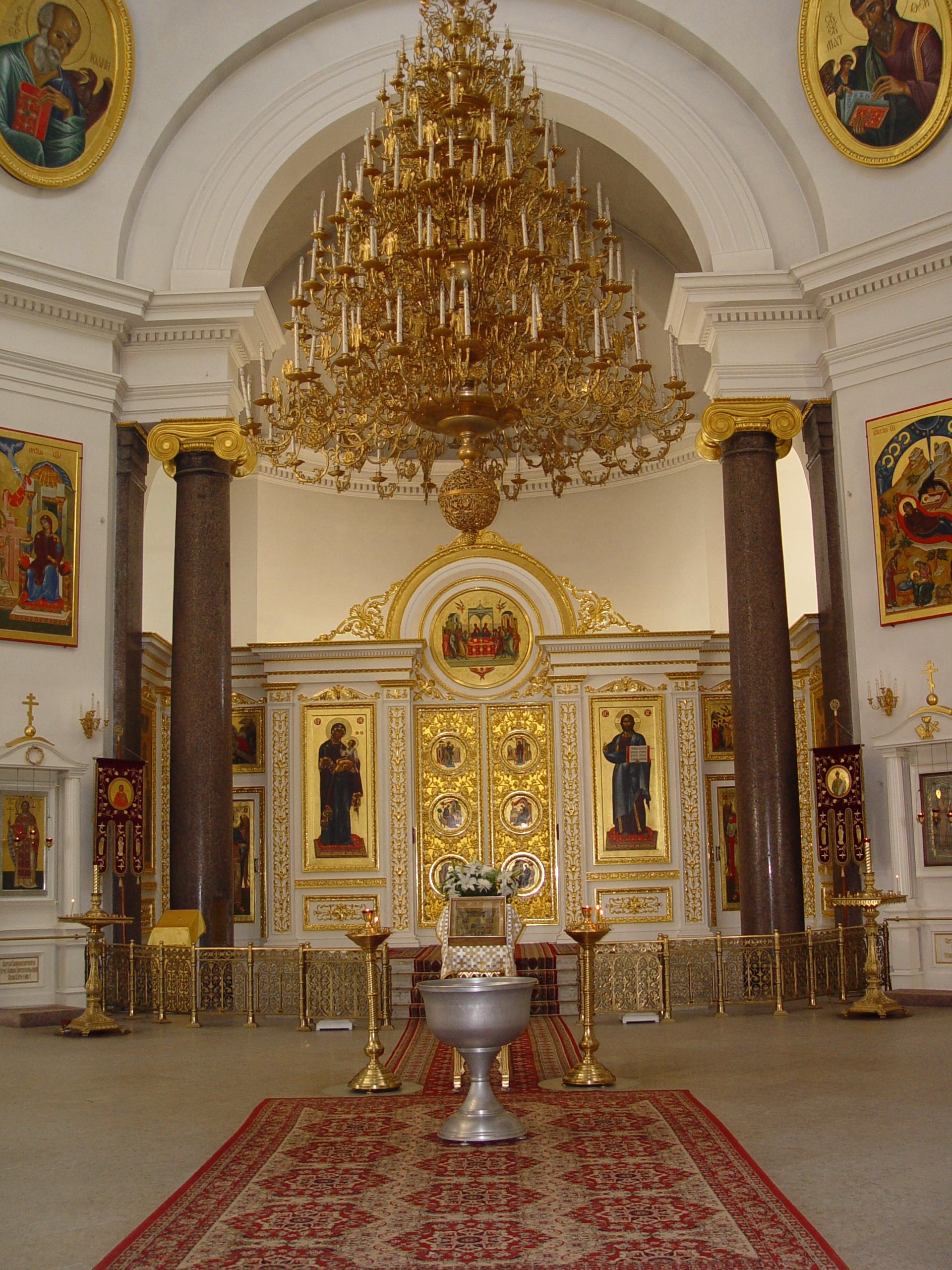 Main_Iconoclasis in St. Sophia Cathedral in Tsarskoye Selo